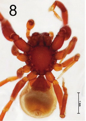 Steriphopus macleayi male